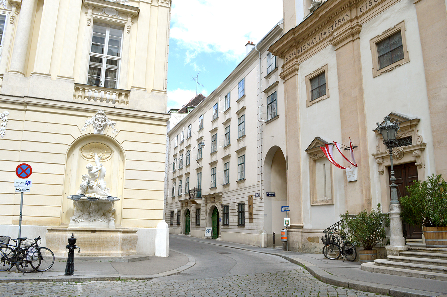 View of Dr. Iganz Seipel-Platz 2 to Sonnenfelsgasse 19 in Vienna, Austria